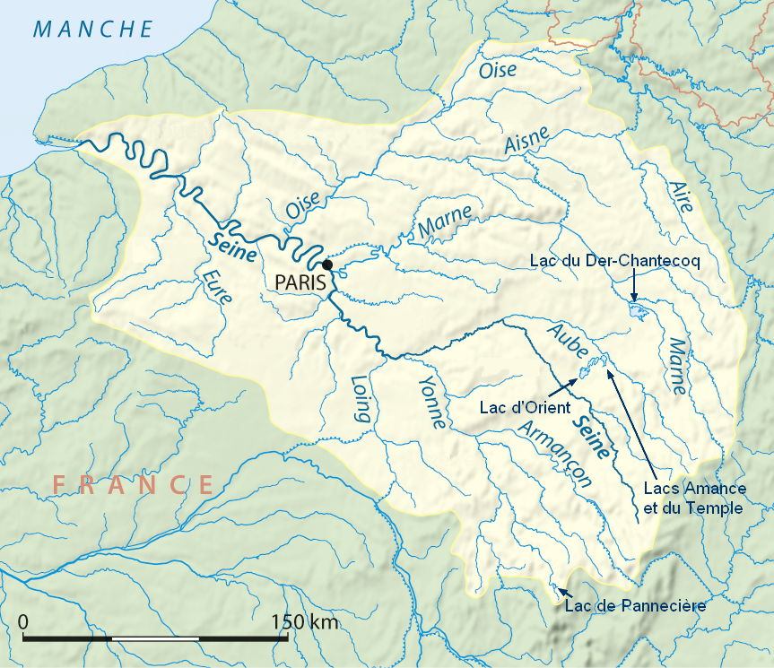 Drainage basin of Seine, French version